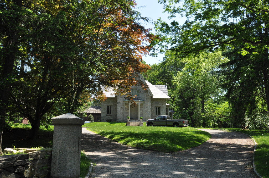 The Woodpile, a large multi-residence family estate at Croton Lake Road and Wood Road in Bedford Corners, New York.